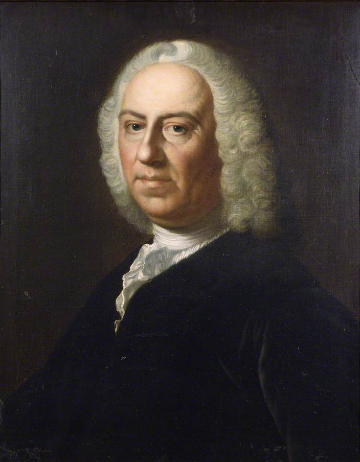 Depicted person: Francesco Geminiani